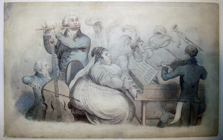 Pen and ink drawing, watercolor, c. 1802, by Edward Francis Burney (1760-1848) after James Gillray (1757-1815). The players are: piano-Lady Albina Buckinghamshire, violin-Henry Francis Greville, cello-Lord Mount Richard Edgcumbe, flute-Lord George James Cholmondeley, horn-Lady Salisbury (Mary Amelia).